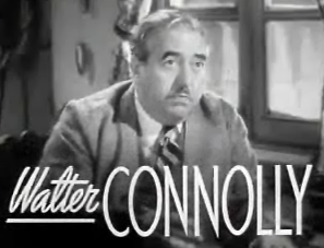 Cropped screenshot of Walter Connolly from the trailer for the film Bridal Suite.